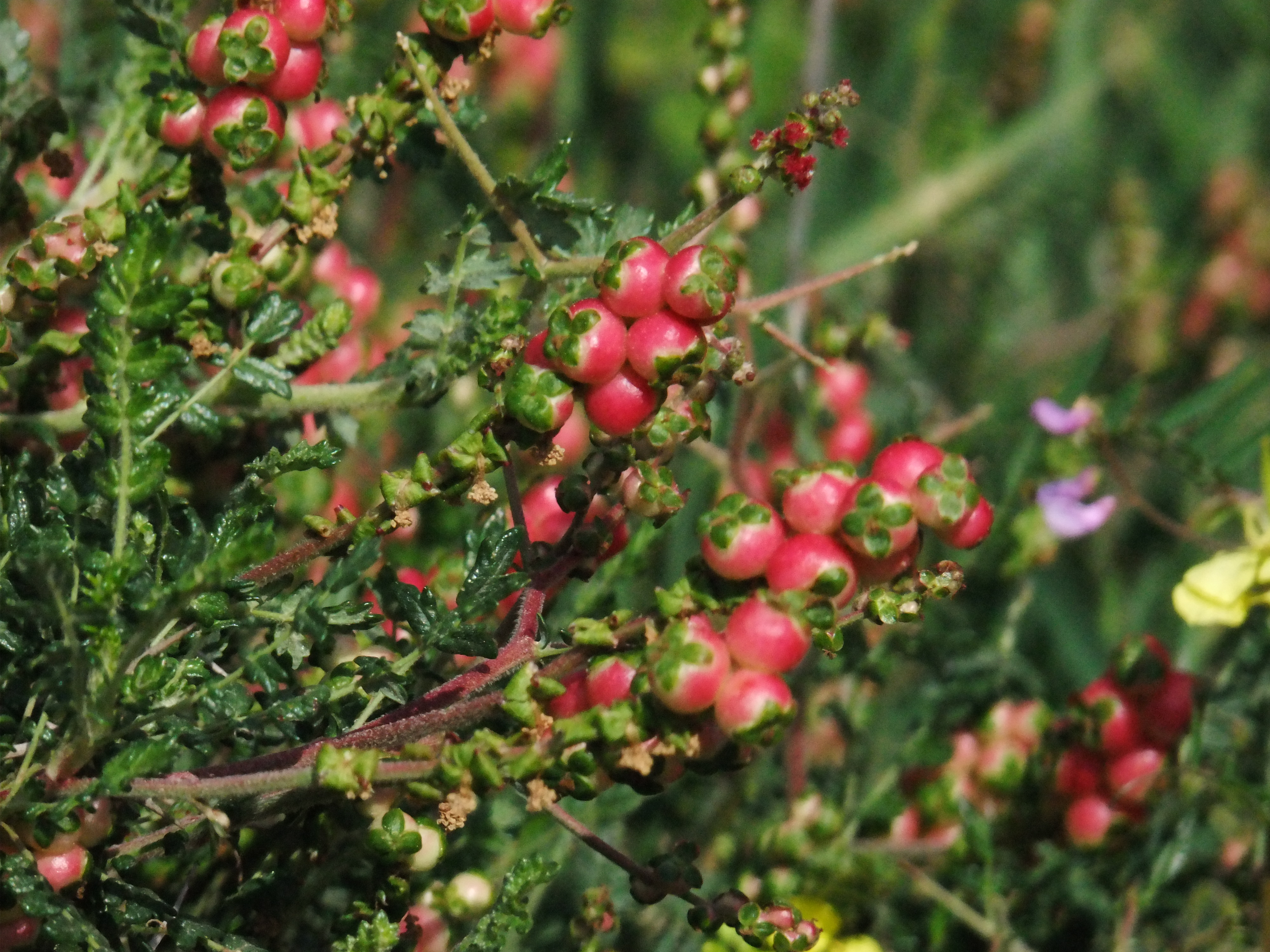 Flower burnet, Plants of Israel